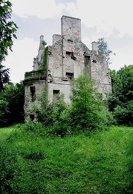 The ruins of Cavers House in former Roxburghshire.